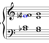 German sixth moving to V, generated on Sibelius.